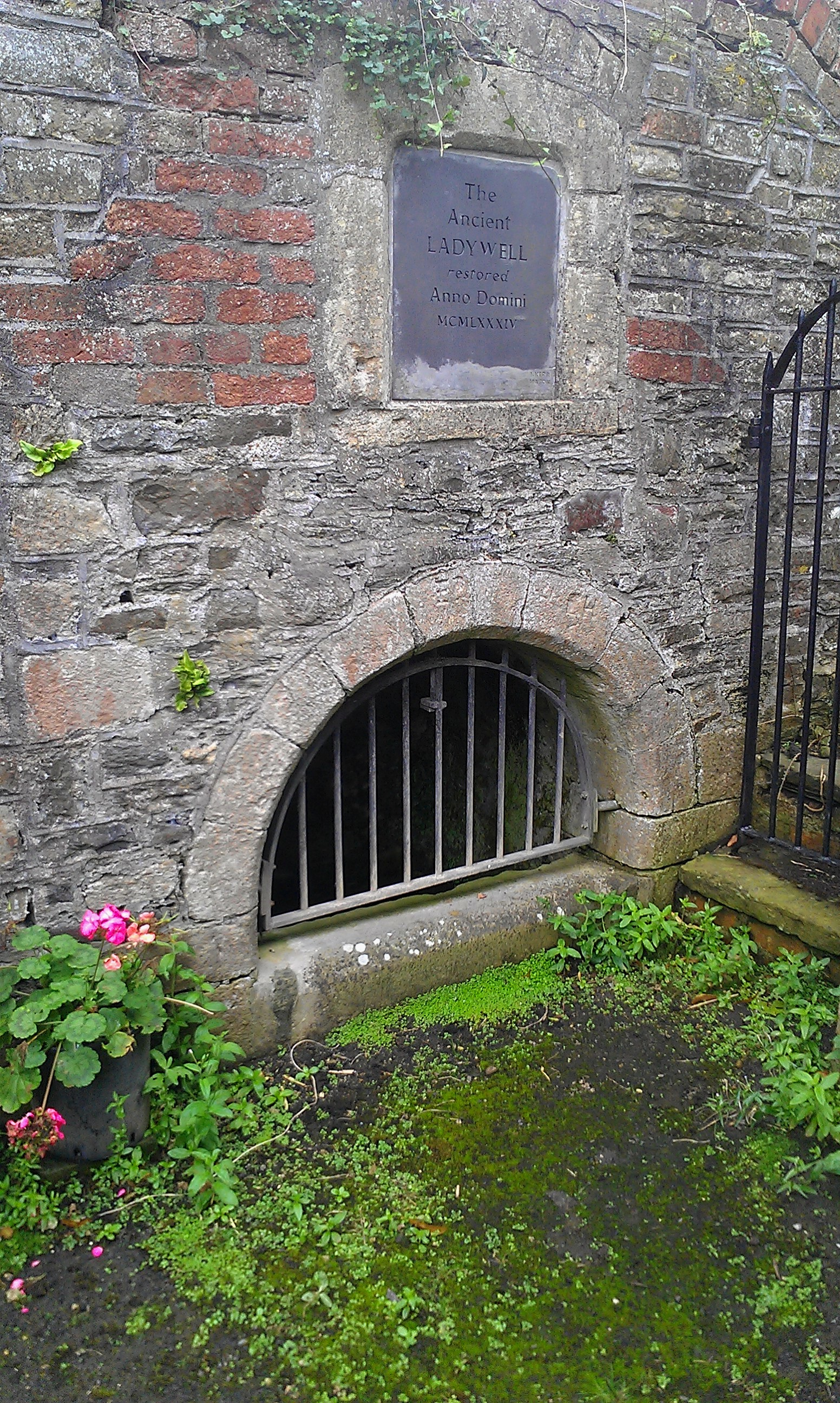 The Ladywell, adjacent to St Mary the Virgin Church in Pilton, Devon.